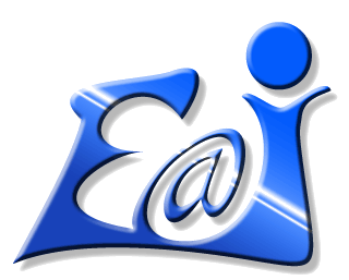 Logo of the organizaton E@I with transparent background.